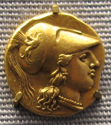 Syrakus, octobolo d'oro di agathokles, 304-289 ac. ca.